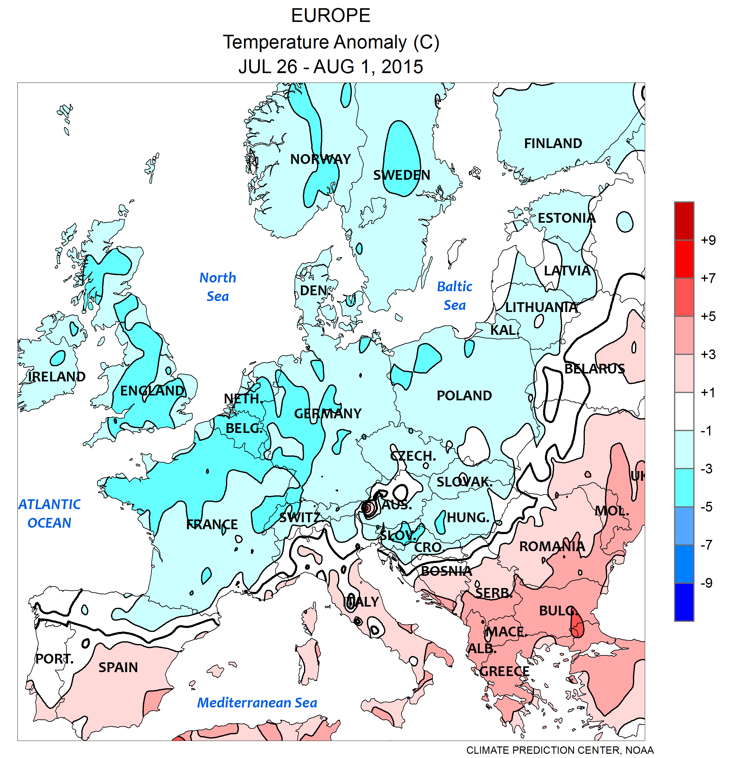 Europe: Temperature_anomaly July 26 - August 01, 2015, computer generated colours, based on preliminary data